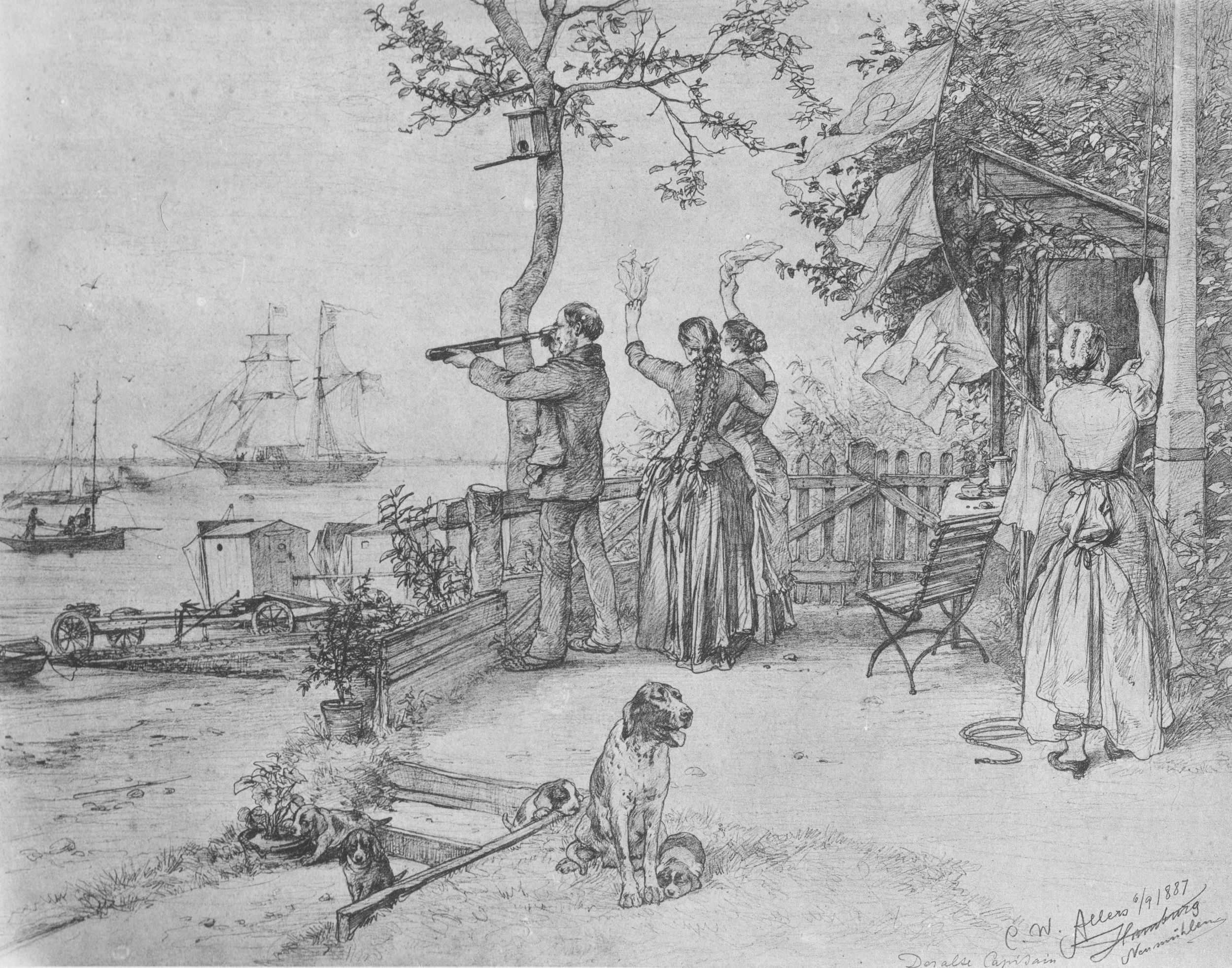 Elbe coast at Neumühlen (today part of Hamburg).